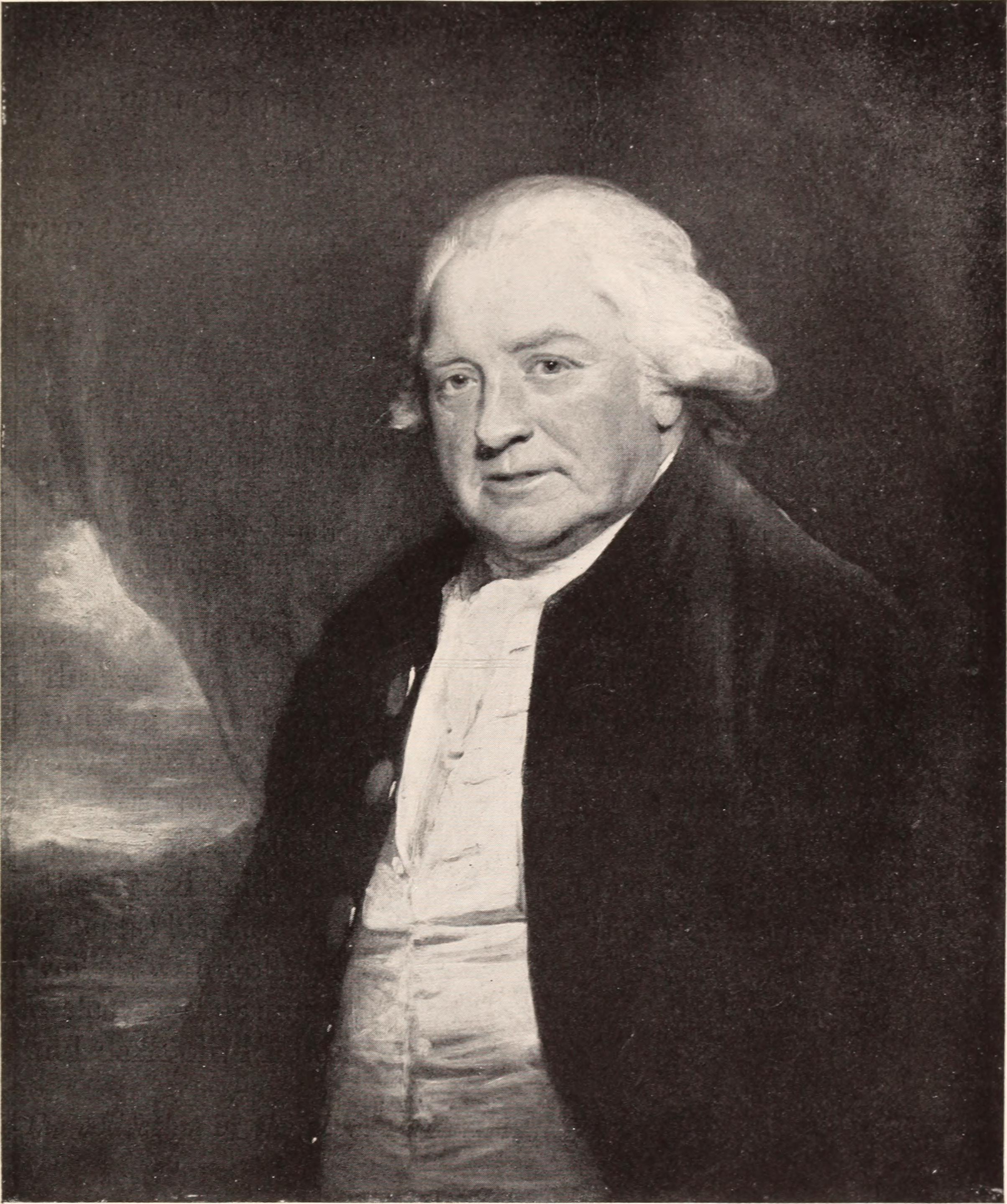 Sir William Beechey - Portrait of Admiral Sir George Cranfield Berkeley Title: Early English portraits and other paintings Year: 1915 (1910s) Authors: American Art Association Subjects: F.A.G. Hood, Esq G.F.W. Hood, Esq Publisher: New York : American Art Association Text Appearing Before Image: 1753;died, 1818. Married Emily Charlotte, sister of the Duke ofRichmond. Entered the Navy, 1766, and in 1805 was ap-pointed to the command of the Halifax station. It was dur-ing his incumbency there and under his direct orders that theLeopard engaged the United States frigate Chesapeake, in1807, a combat which led to a prolonged diplomatic corre-spondence and was one of the primary causes of the war whichwas precipitated five years later. A florid man, with indications of a choleric temperament,though with a certain severe kindliness of features withal, theadmiral appears at half-length, standing, against a dark, richred drapery, beneath a corner of which is to be seen a deco-rative landscape. He is turned to the left, three-quarters front,and is observed almost in full face. He is large, broad-chested,full-bodied, with broad head and the heavy jowls of a goodeater. He wears the white wig of the day, white waistcoatand jabot, and a rich dark green velvet coat witli large goldbuttons. Text Appearing After Image: No. 36SIR GEORGE HAYTER